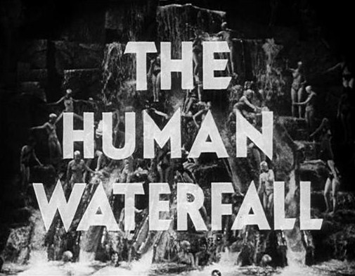 Frame from public domain trailer for Warner Bros. 1933 film Footlight Parade showing the "Human Waterfall"